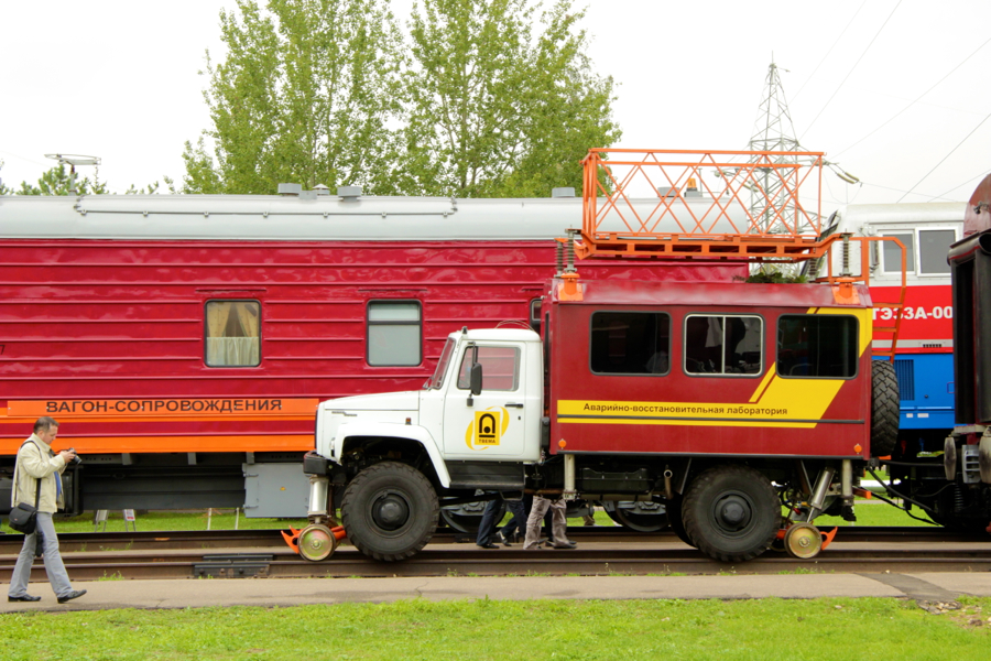 GAZ truck on rail at Moscow, Scherbinka (Москва, Щербинка)